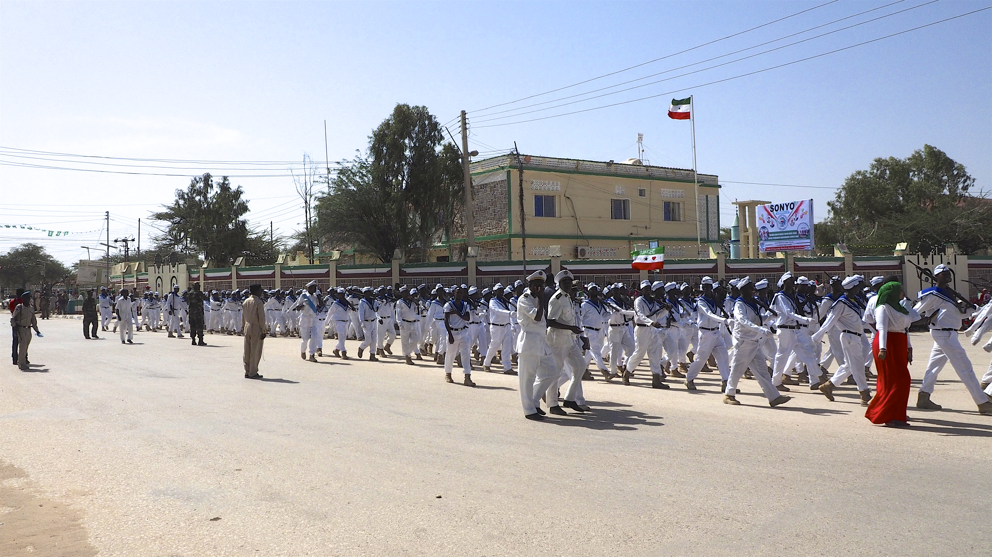 Celebrating Somalilands Independence Day